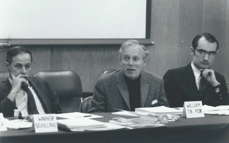 Participants in a conference for the United States Arms Control and Disarmament Agency to discuss a draft of a report concerning issues revolving around American defense posture and European security. The conference was held 30 October through 1 November 1969, at the Lake Mohonk facility in New Paltz, New York. Seen here are Warner R. Schilling of Columbia University, William T. R. Fox of Columbia University, and Wilfrid L. Kohl of the National Security Council and other institutions.